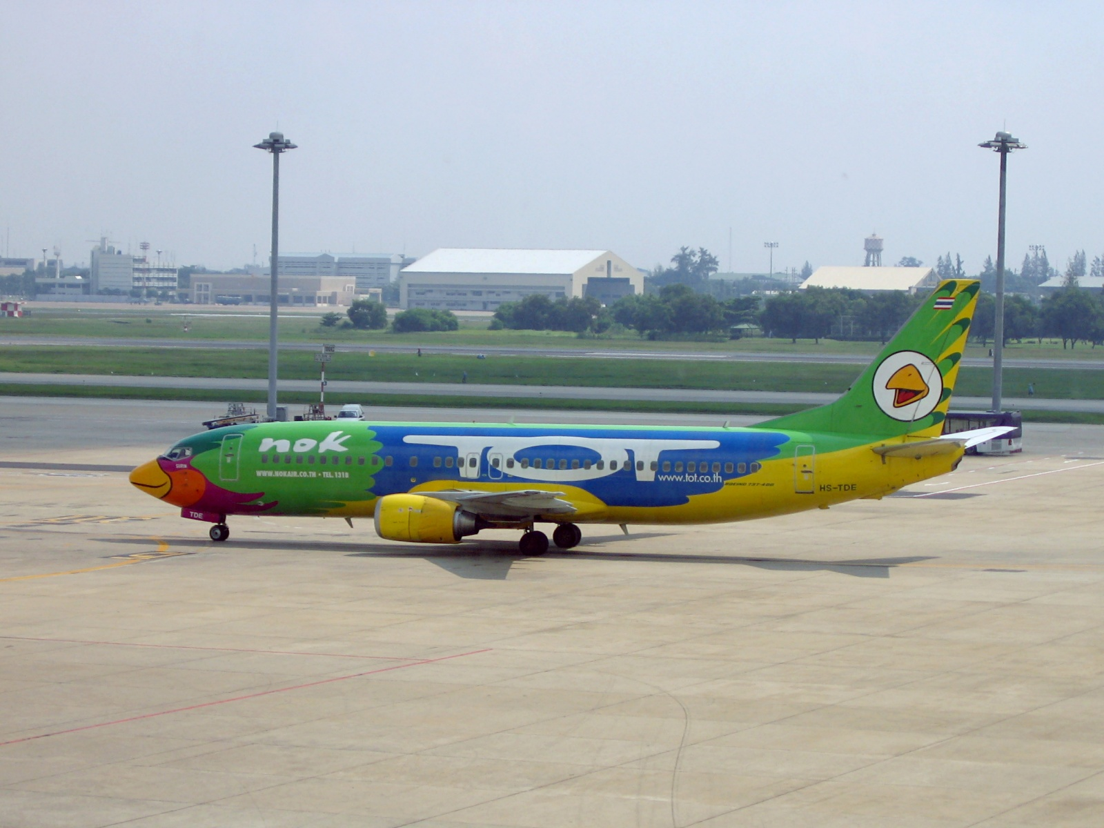 Nok Air Boeing 737-400 (HS-TDE) at Bangkok International Airport. On the back of aircraft is an advertisement for TOT Corporation, formerly Telephone Organization of Thailand.